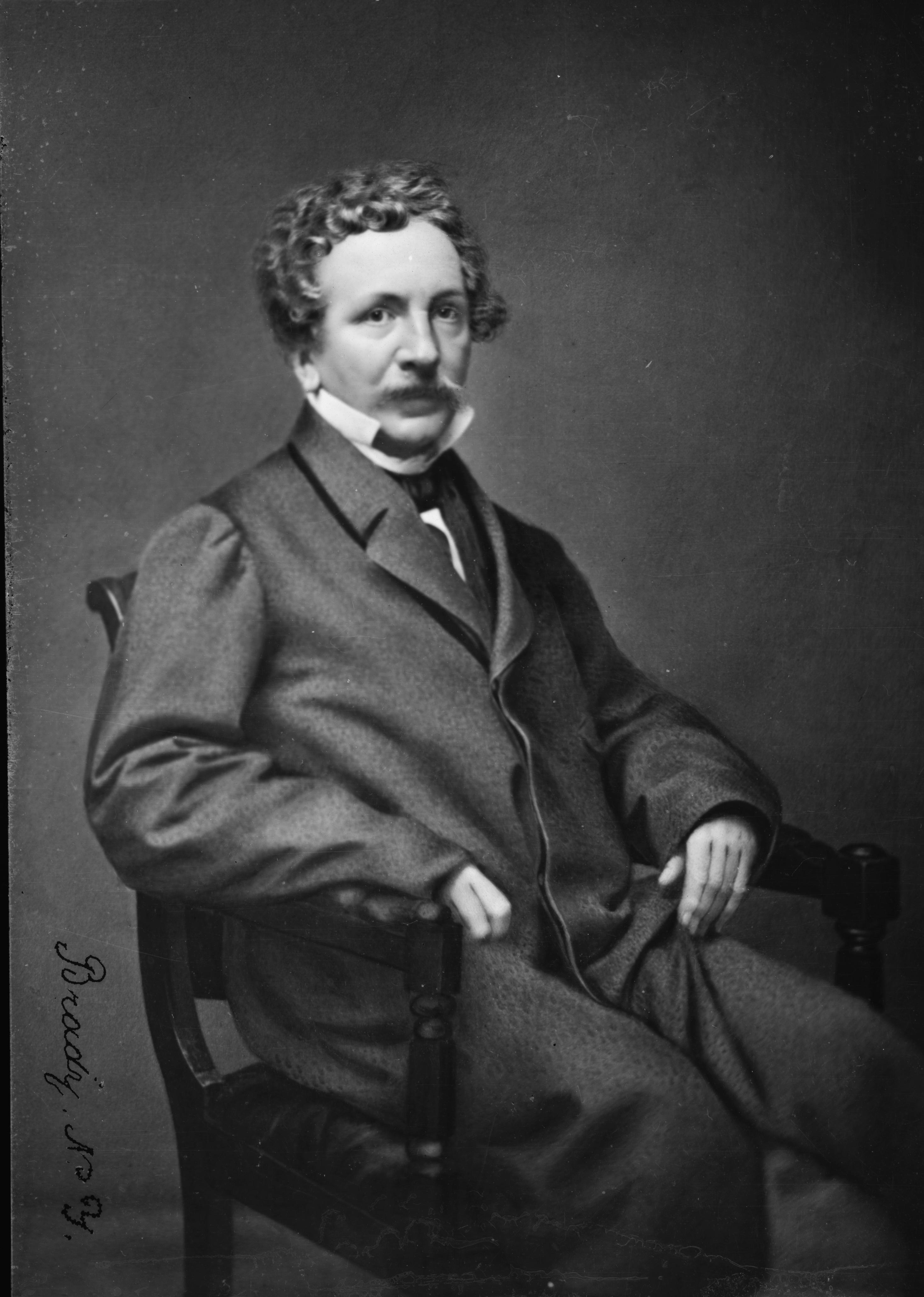 George Payne Rainsford James. Library of Congress description: "G. P. R. James"